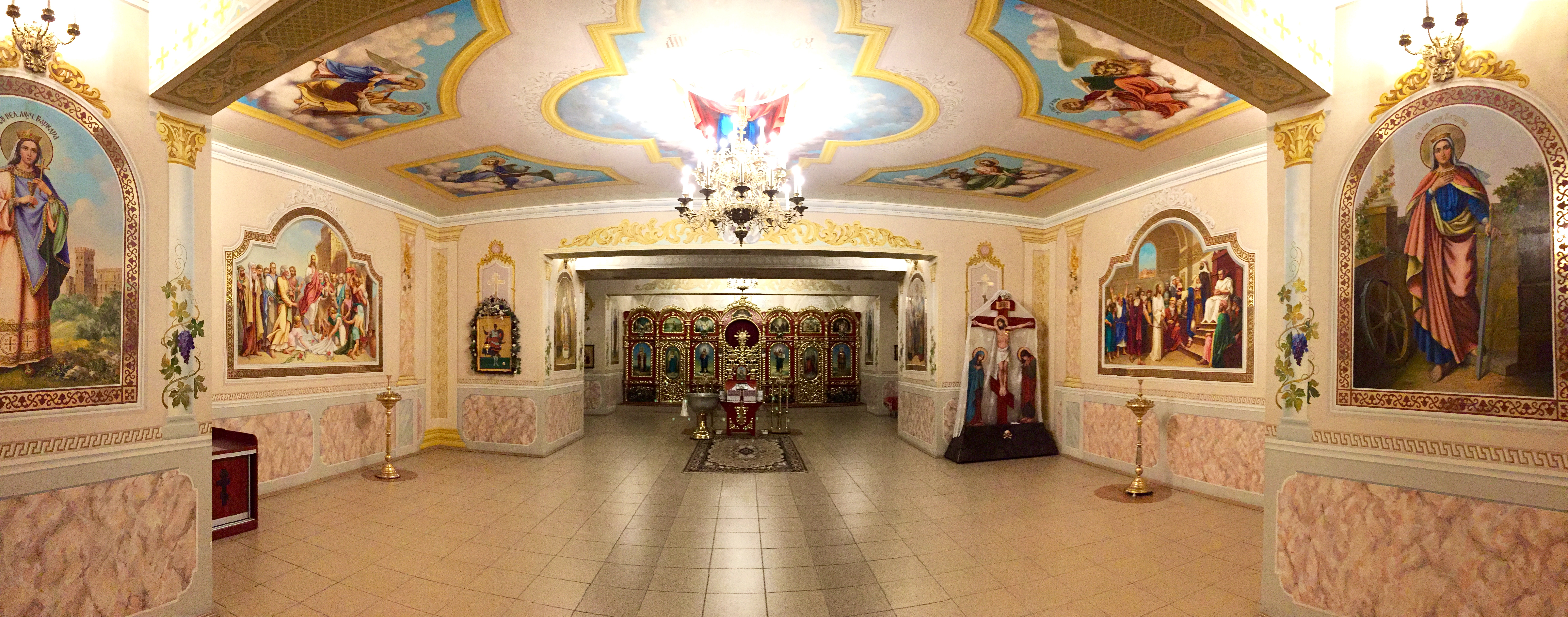 Orthodox Church in Ukraine Kyiv